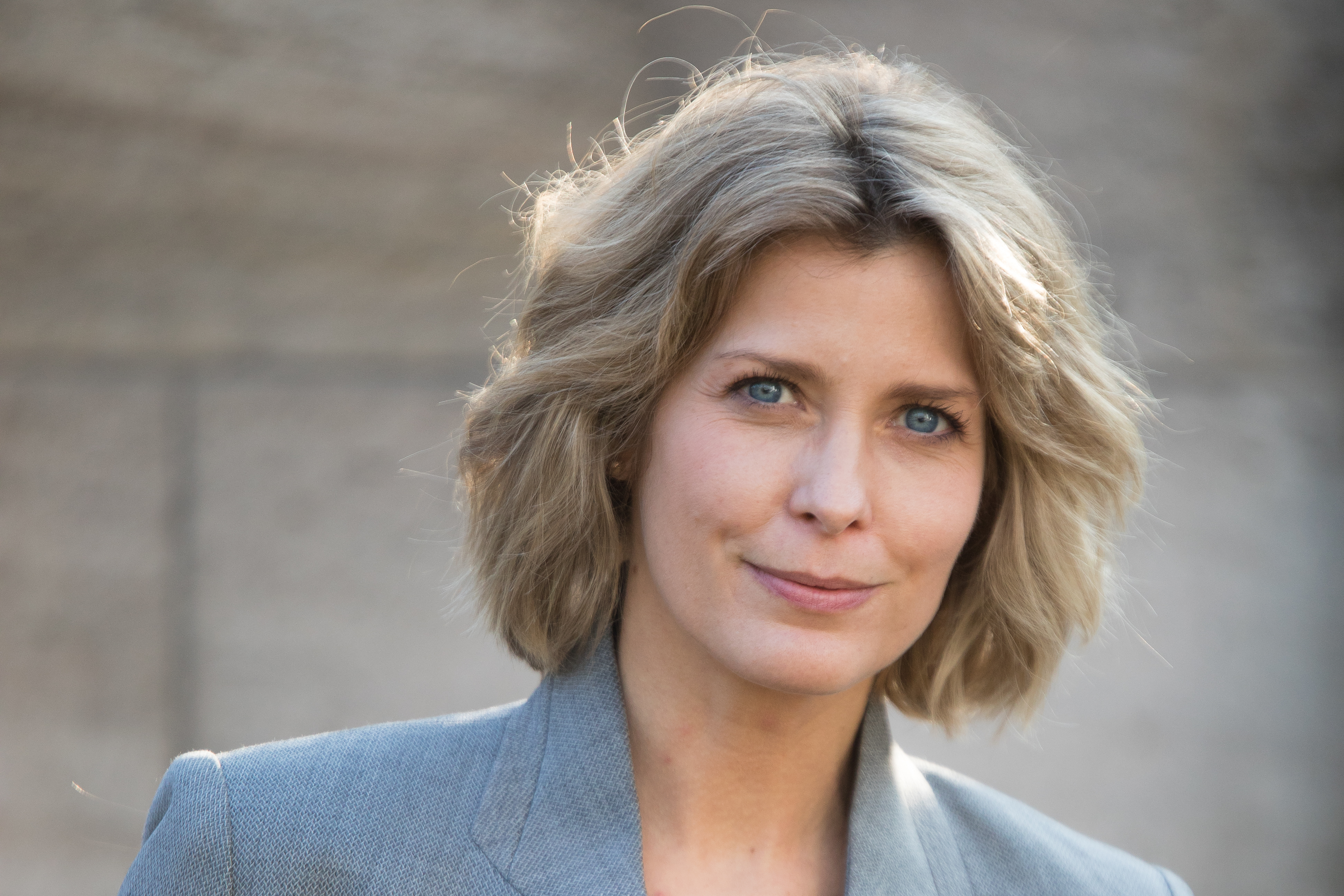 Valerie Niehaus at the reception of the state government of Hesse, Berlinale 2018